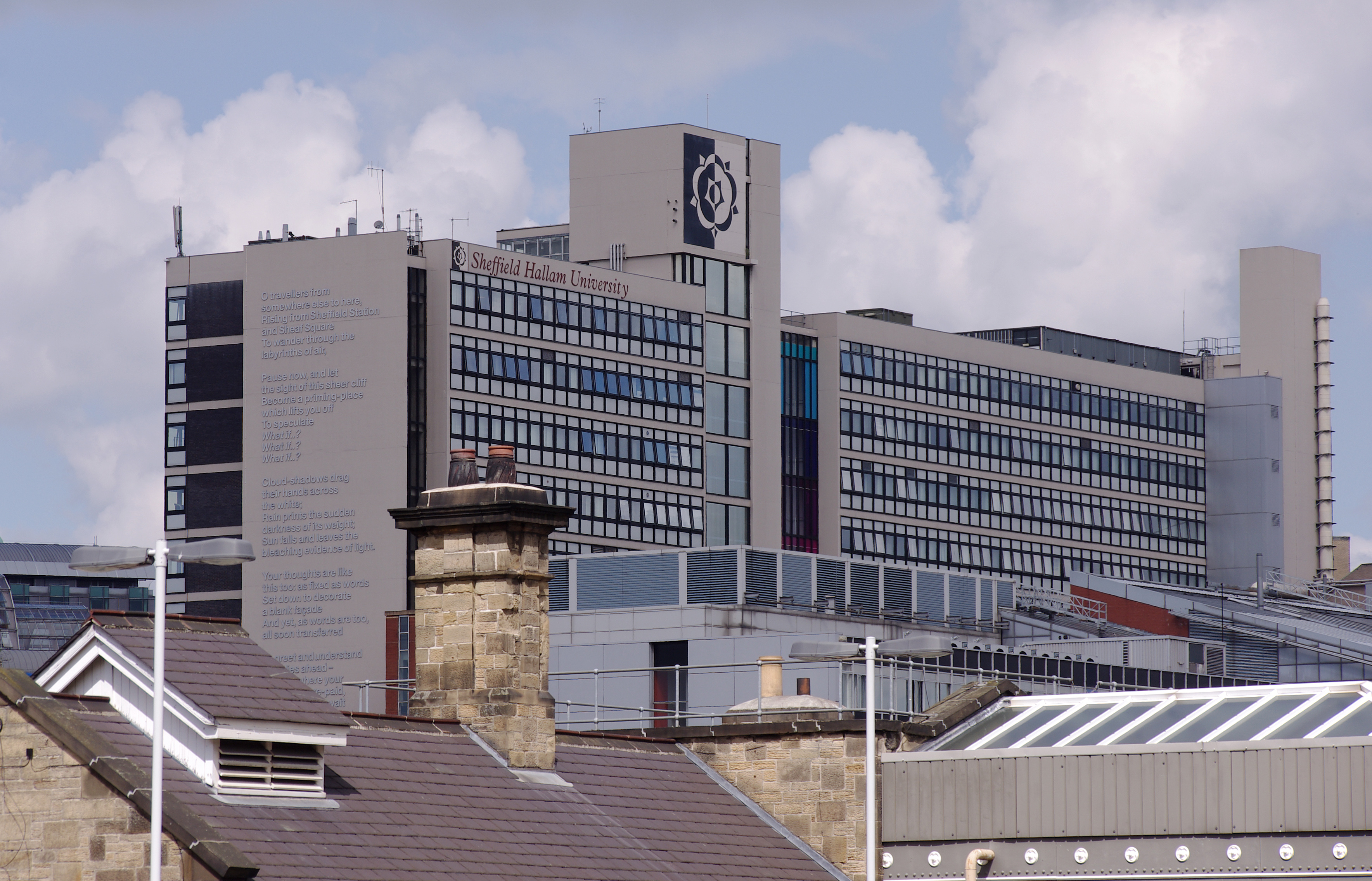 Sheffield Hallam University, viewed from the railway station.